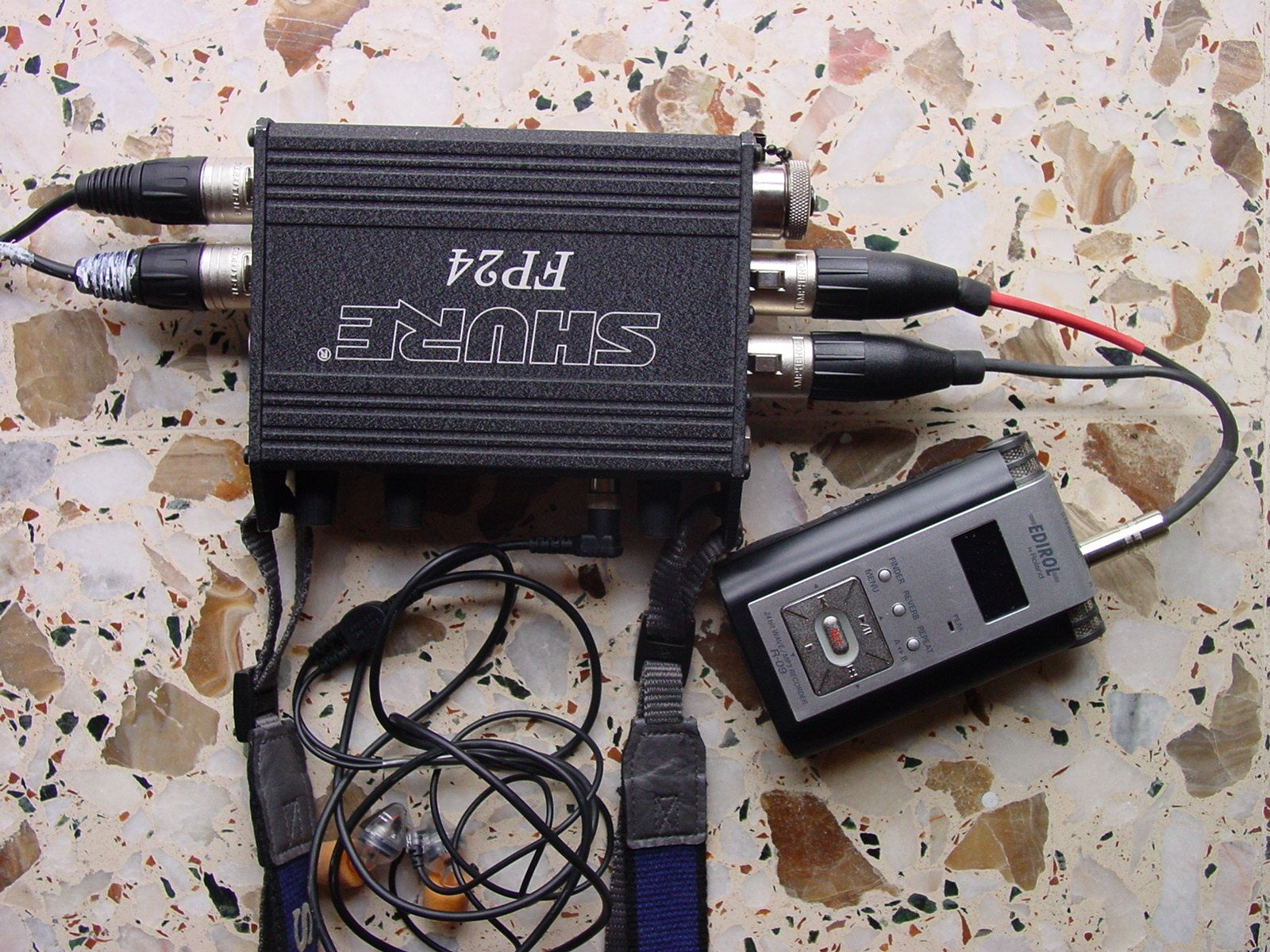 a Shure FP24 preamp connected to an Edirol R-09 recorder through the XLR-out using a Y-cable (connectors on the left side come from a pair of phantom-powered mics, Sennheiser MKH60 and MKH30) Shure FP24 2ch Stereo Preamplifier and Mixer Edirol R-09 WAVE/MP3 Recorder